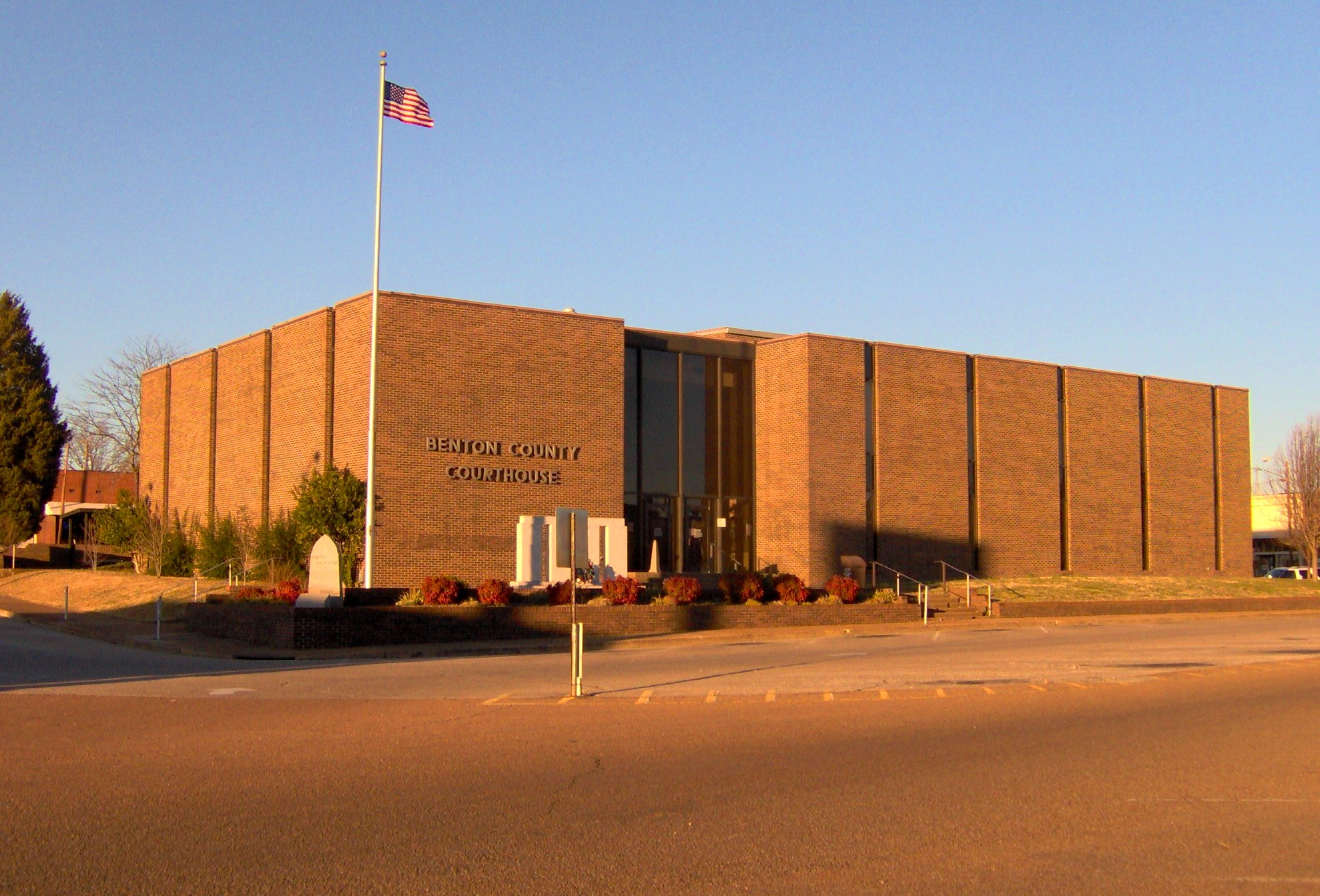 The Benton County Courthouse in Camden, Tennessee, in the southeastern United States.